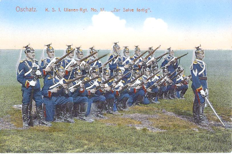 Military exercise of the 17. Uhlan regiment from Oschatz, Saxony